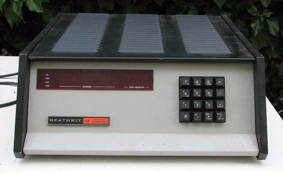 Heathkit H-8 computer based on 8080 Intel microprocessor by Heath Co. sold in kit form in 1978